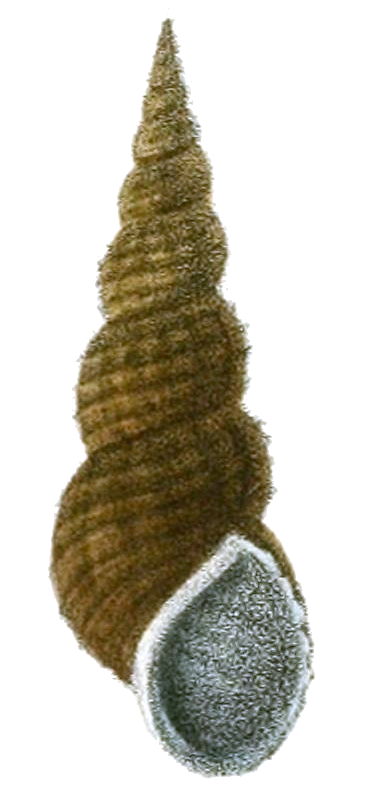 Drawing of an apertural view of a shell of Tylomelania perfecta.